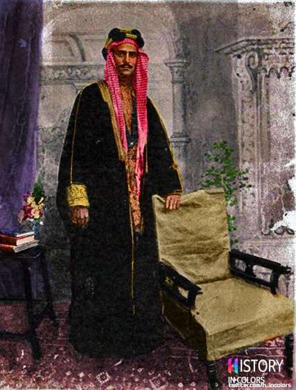 His Highness Sheikh Chassib crown Prince of Arabistan (Ahwaz) government 1923